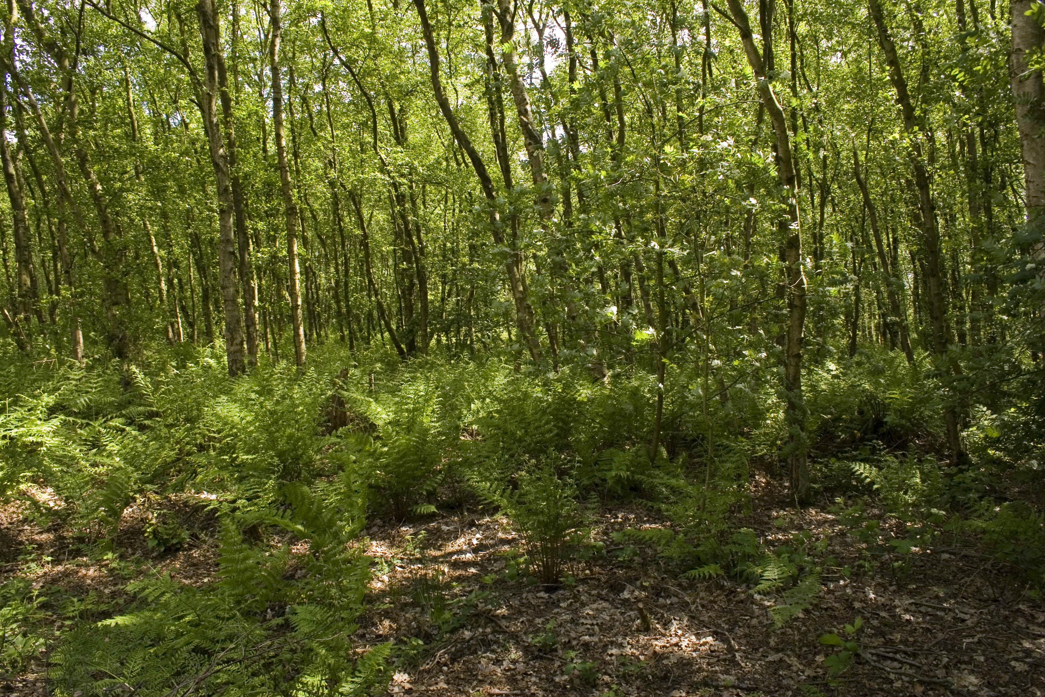 Birch Moss Covert, to the east of Birch Road at Carrington Moss.